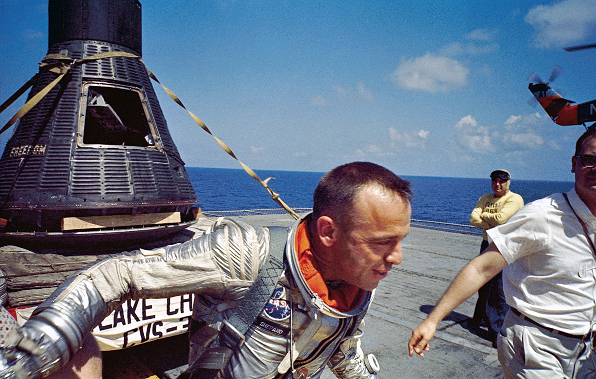 Astronaut Alan B. Shepard on the deck of the USS Lake Champlain after the recovery of his Mercury capsule in the western Atlantic Ocean.